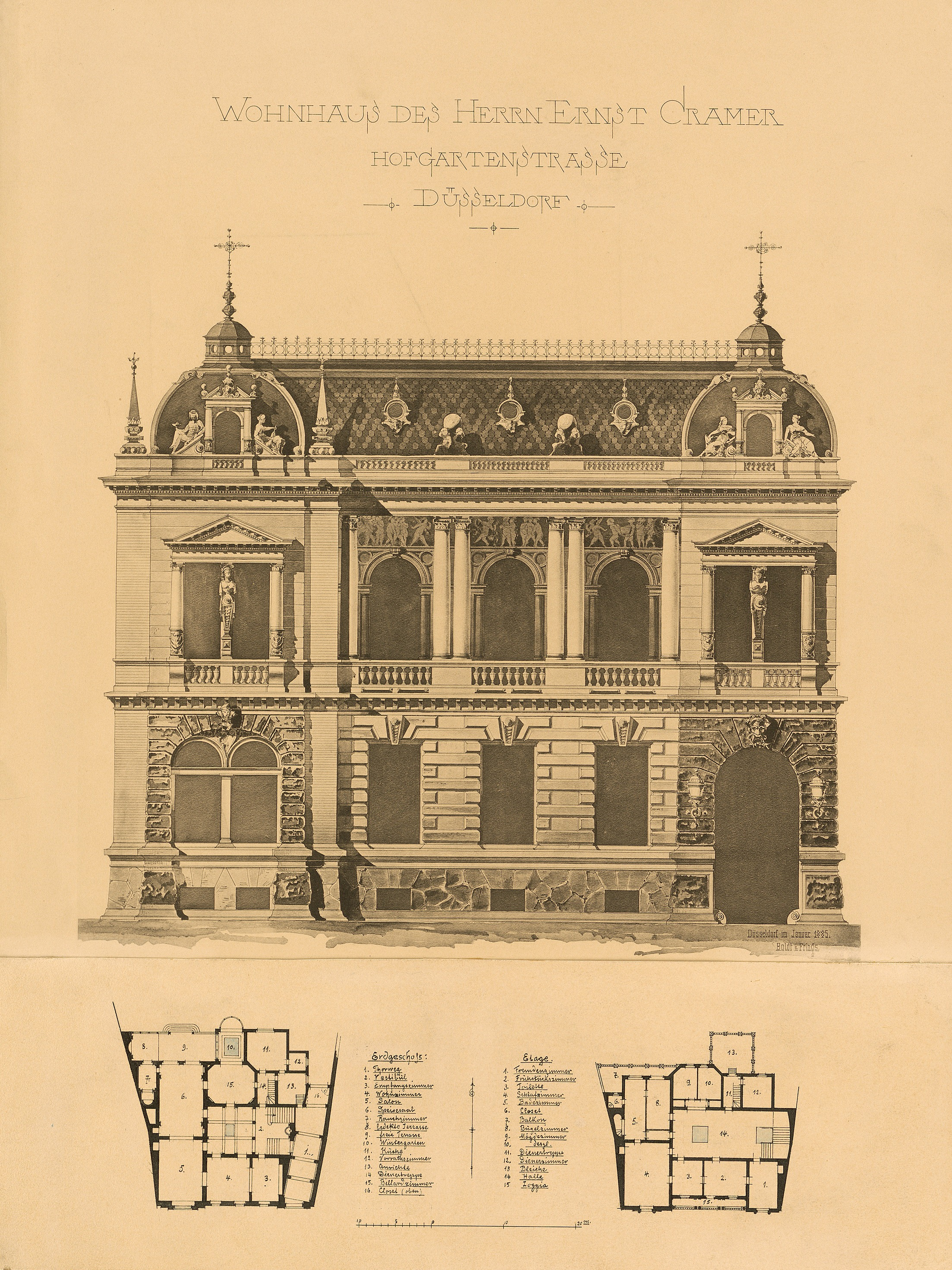 t